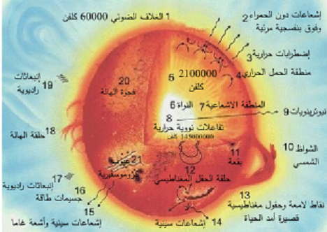 The Sun interior, in Arabic